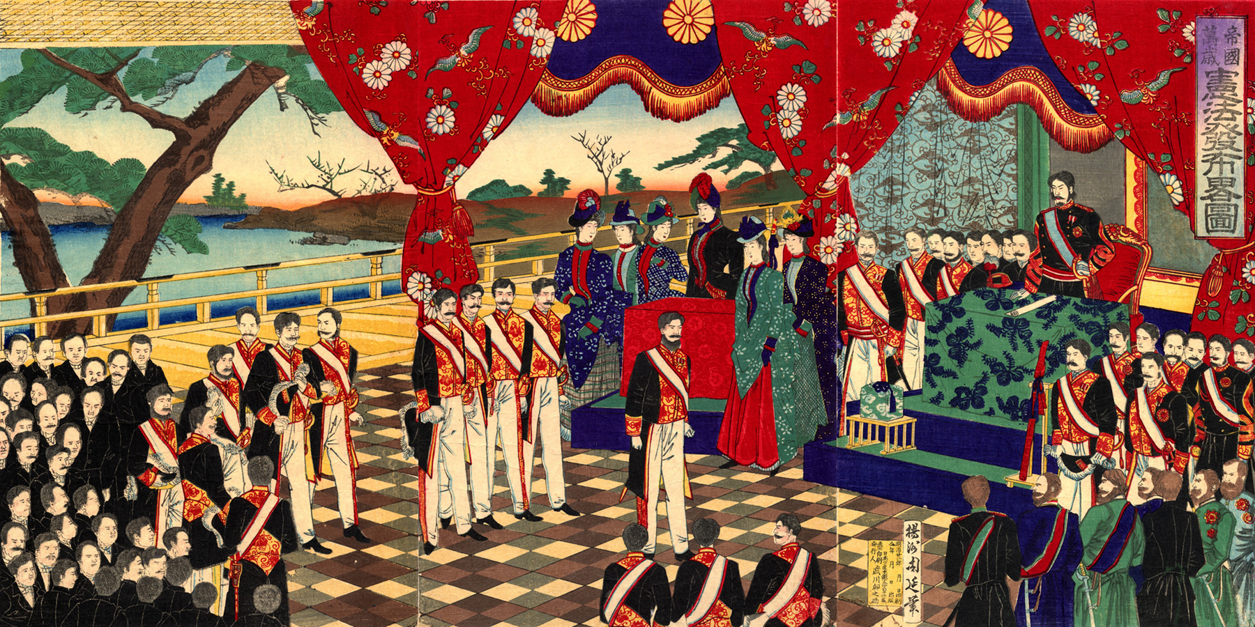 It is The ukiyoe "憲法発布略図"（Meiji Constitution promulgation）